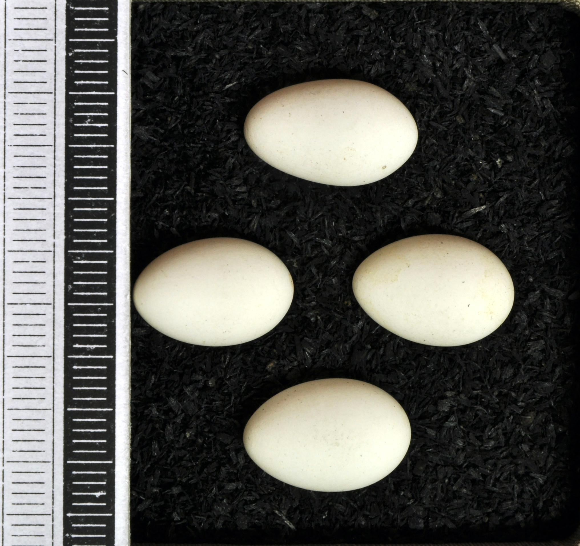 Eurasian penduline tit Remiz pendulinus , egg, Coll. Museum Wiesbaden